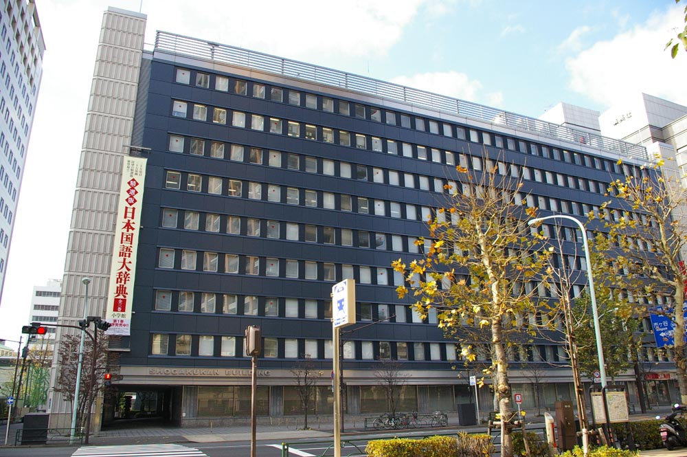 Shogakukan Building, headquarters of Shogakukan in Chiyoda, Tokyo. Taken by Los688, Dec 2005.